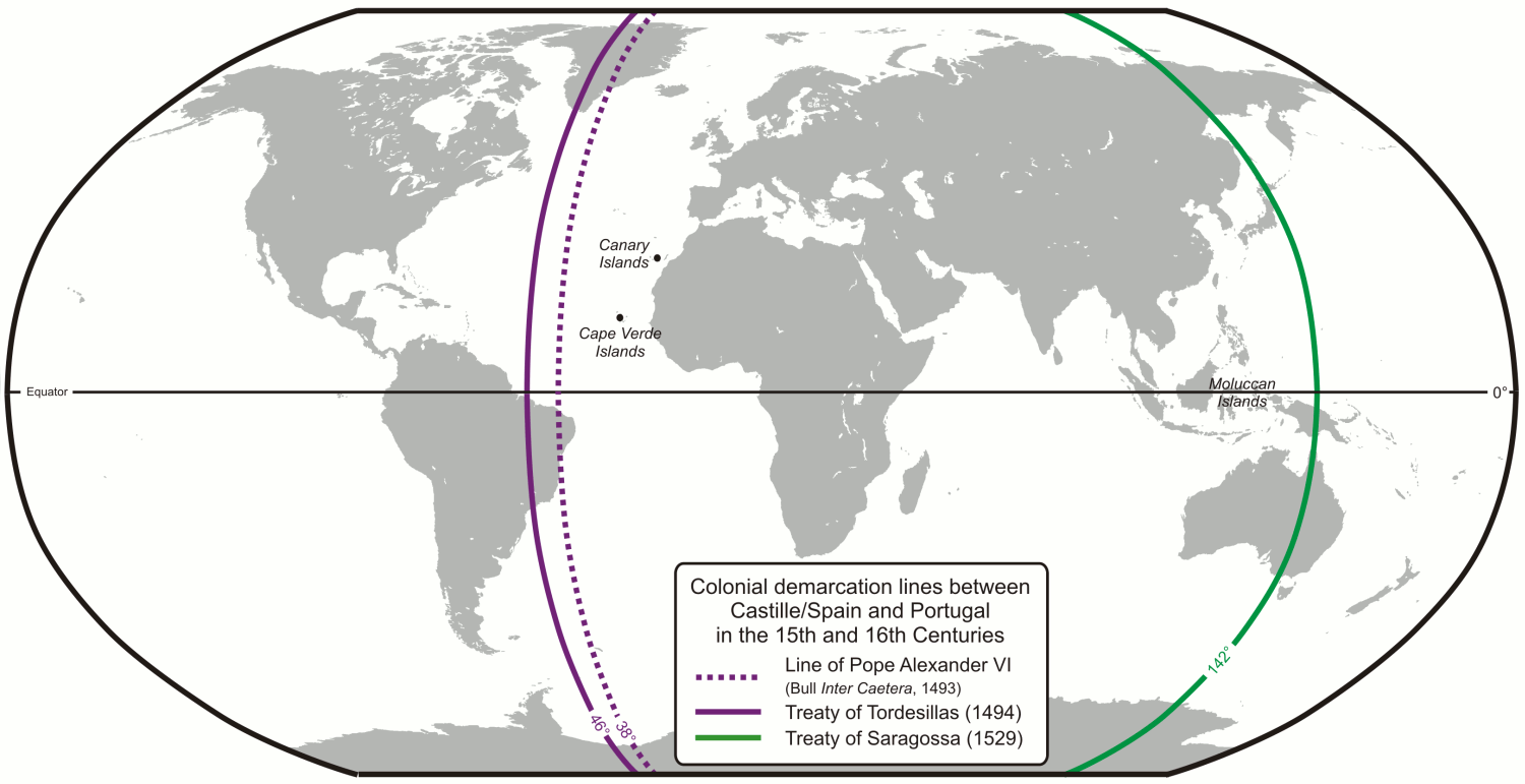 Colonial demarcation lines between Castille/Spain and Portugal in the 15th and 16th Centuries. (Treaty of Tordesillas and Treaty of Saragossa)